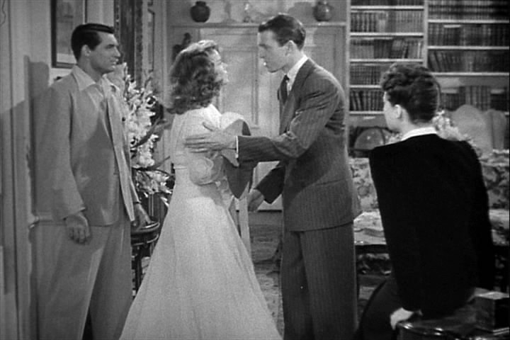 Philadelphia Story